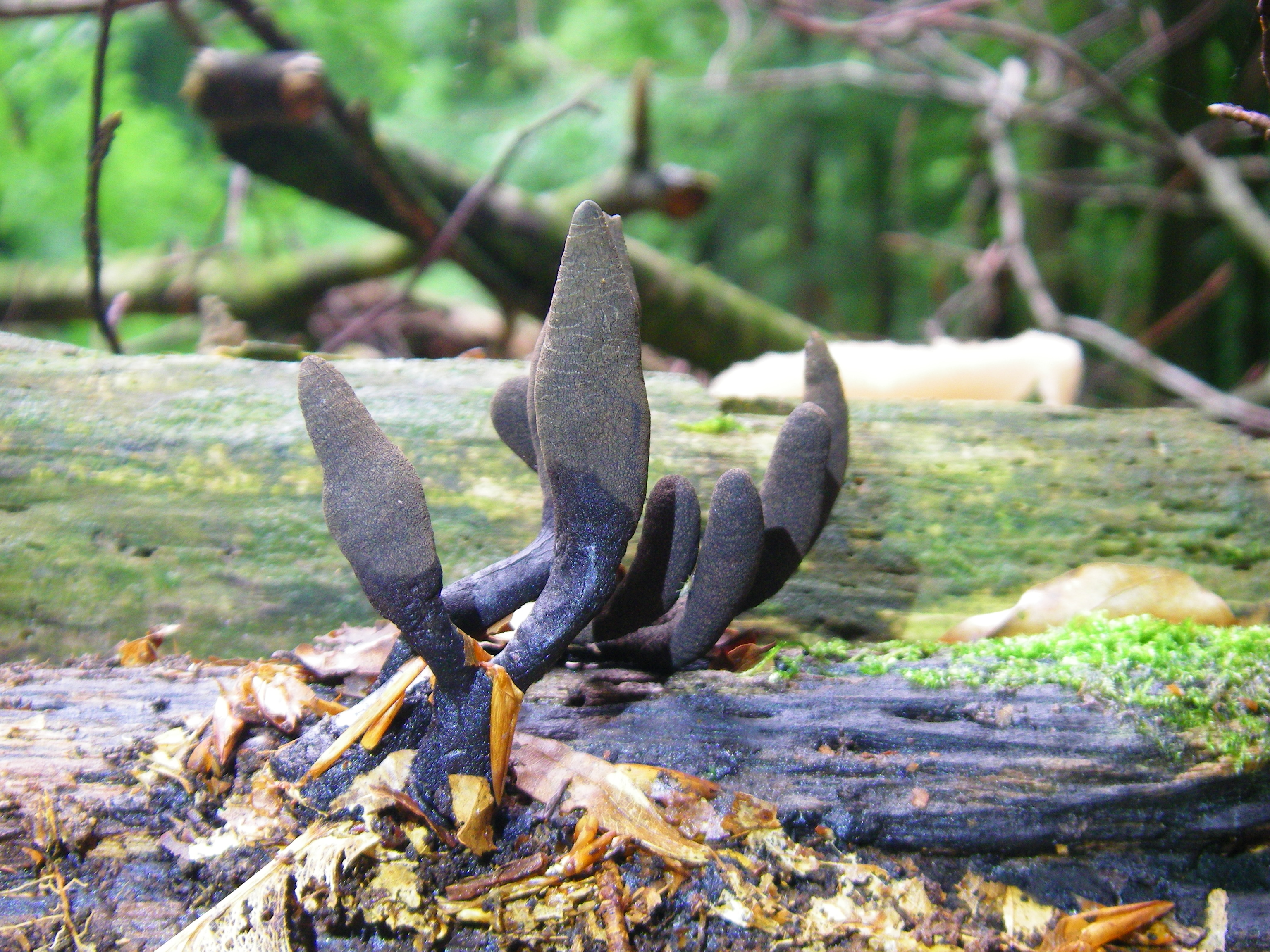 The making of this document was supported by the Community-Budget of Wikimedia Germany.